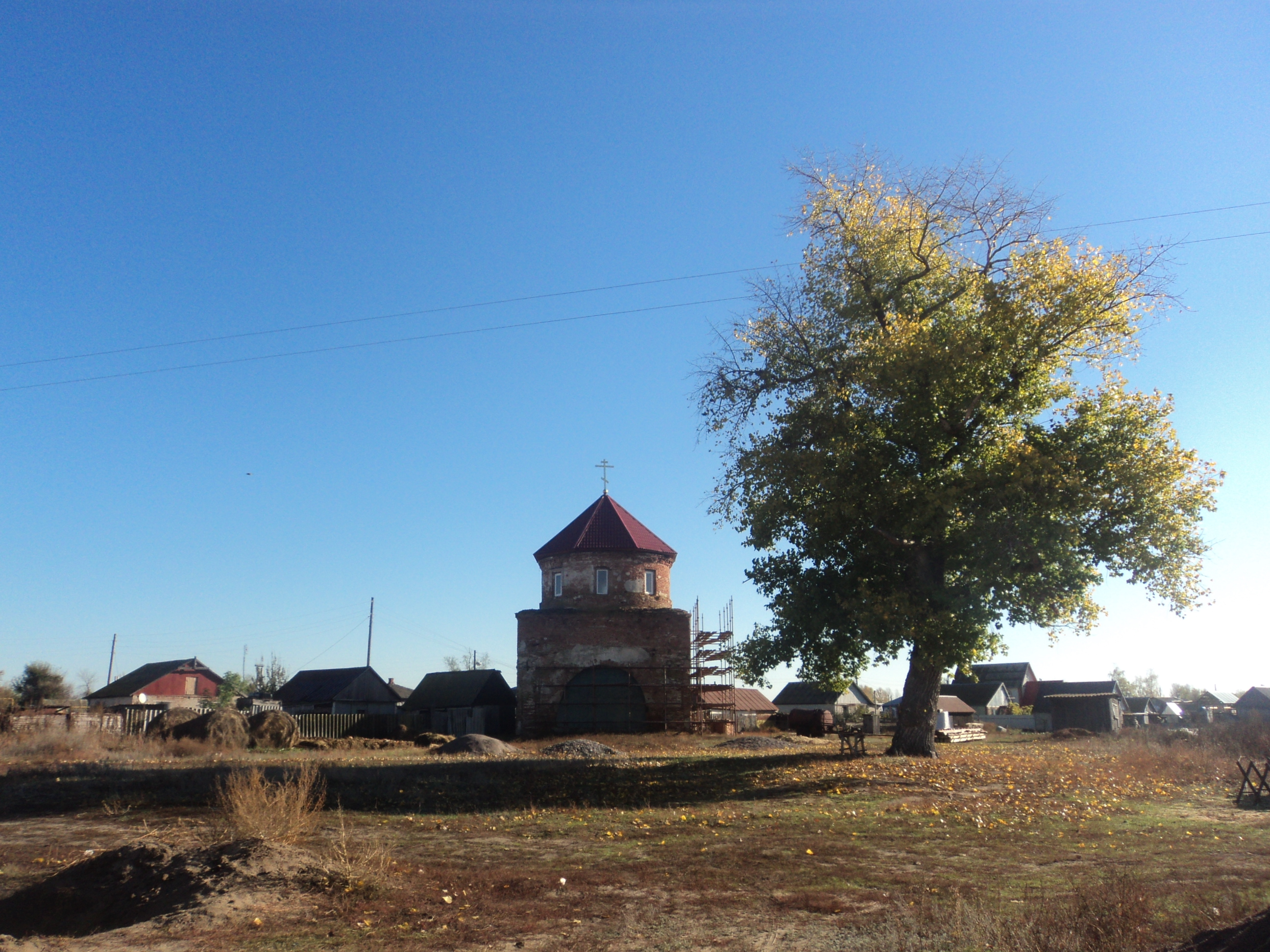 Church in Babka, Voronezh Oblast